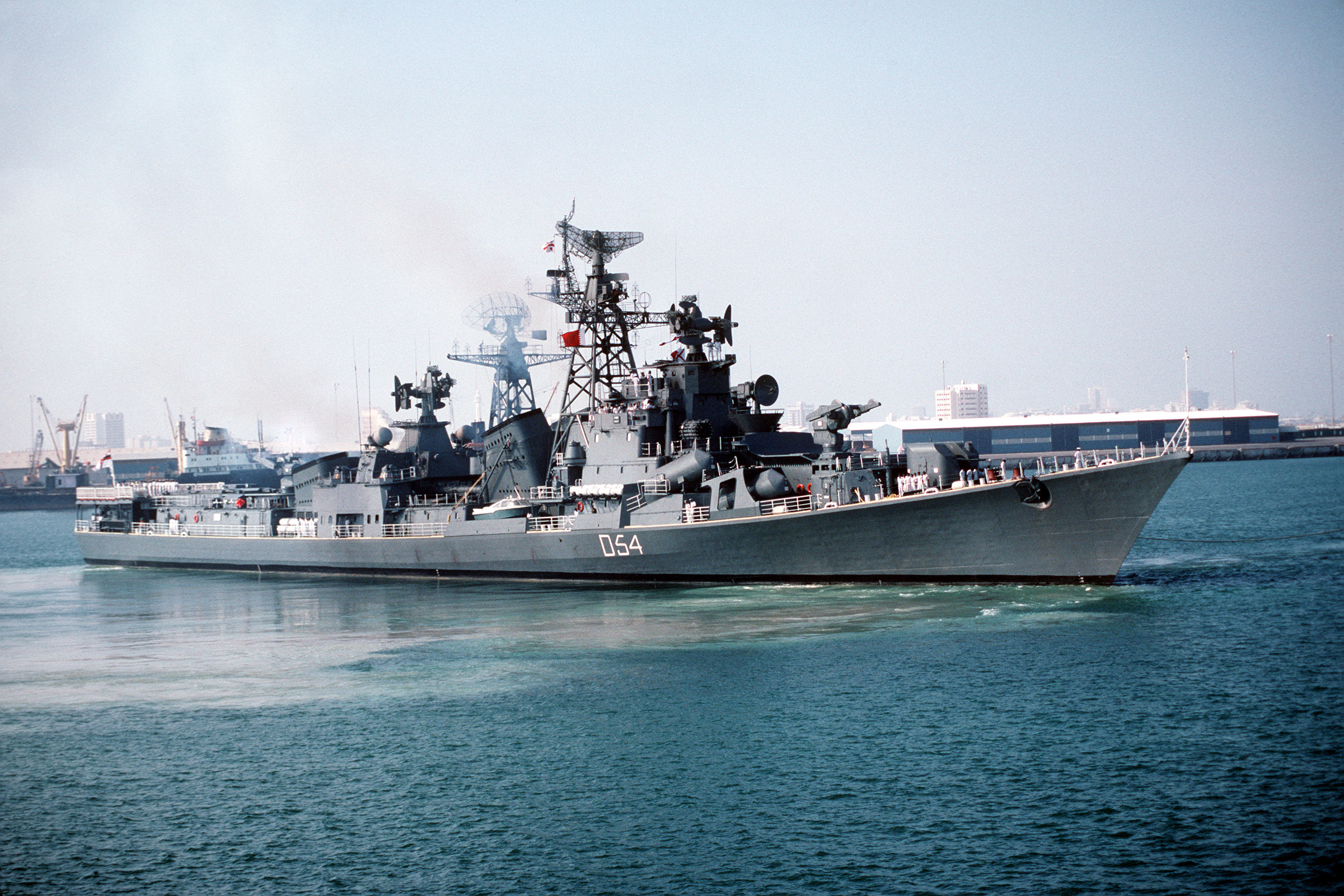 The Indian Rajput class destroyer RANVIR (D 54) is pulled away from the pier at a Persian Gulf port. The ship is a Soviet BPK project 61-ME (NATO - Kashin II-class destroyer) purchased by the Indian government.